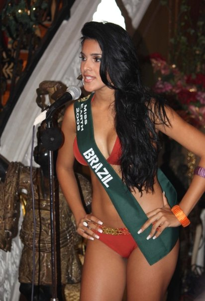 Larissa Ramos - Miss Earth 2009 Press Presentation last November 4, 2009 in Valle Velarde 6, Pasig City, Philippines.